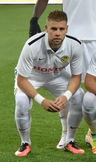 Yoric Ravet